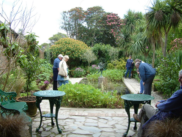 The Lost Gardens of Heligan - Italian Garden.